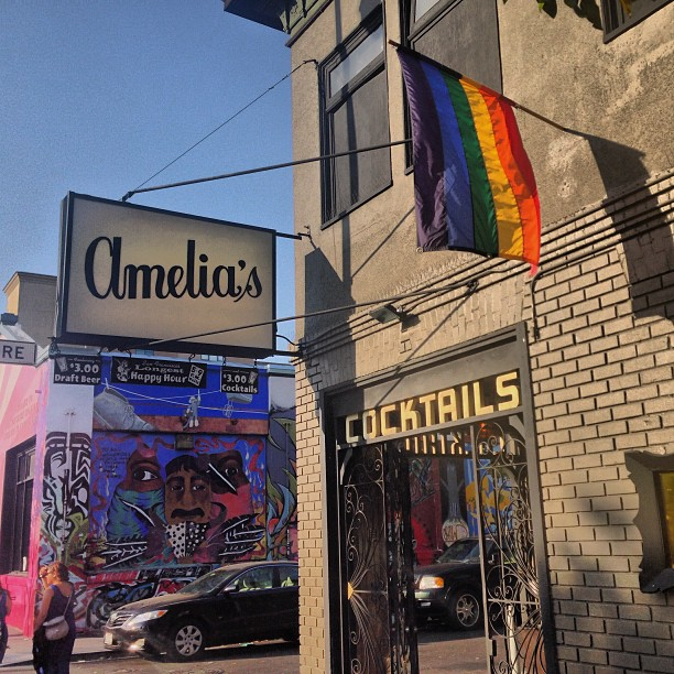 During Pride Week, San Francisco's Elbo Room bar on 647 Valencia Street replaced their sign with the sign of the lesbian dance club that formerly occupied the site, Amelia's, owned by Rikki Streicher from 1978-91, to honor San Francisco lesbians. The Elbo Room closed in 2018.